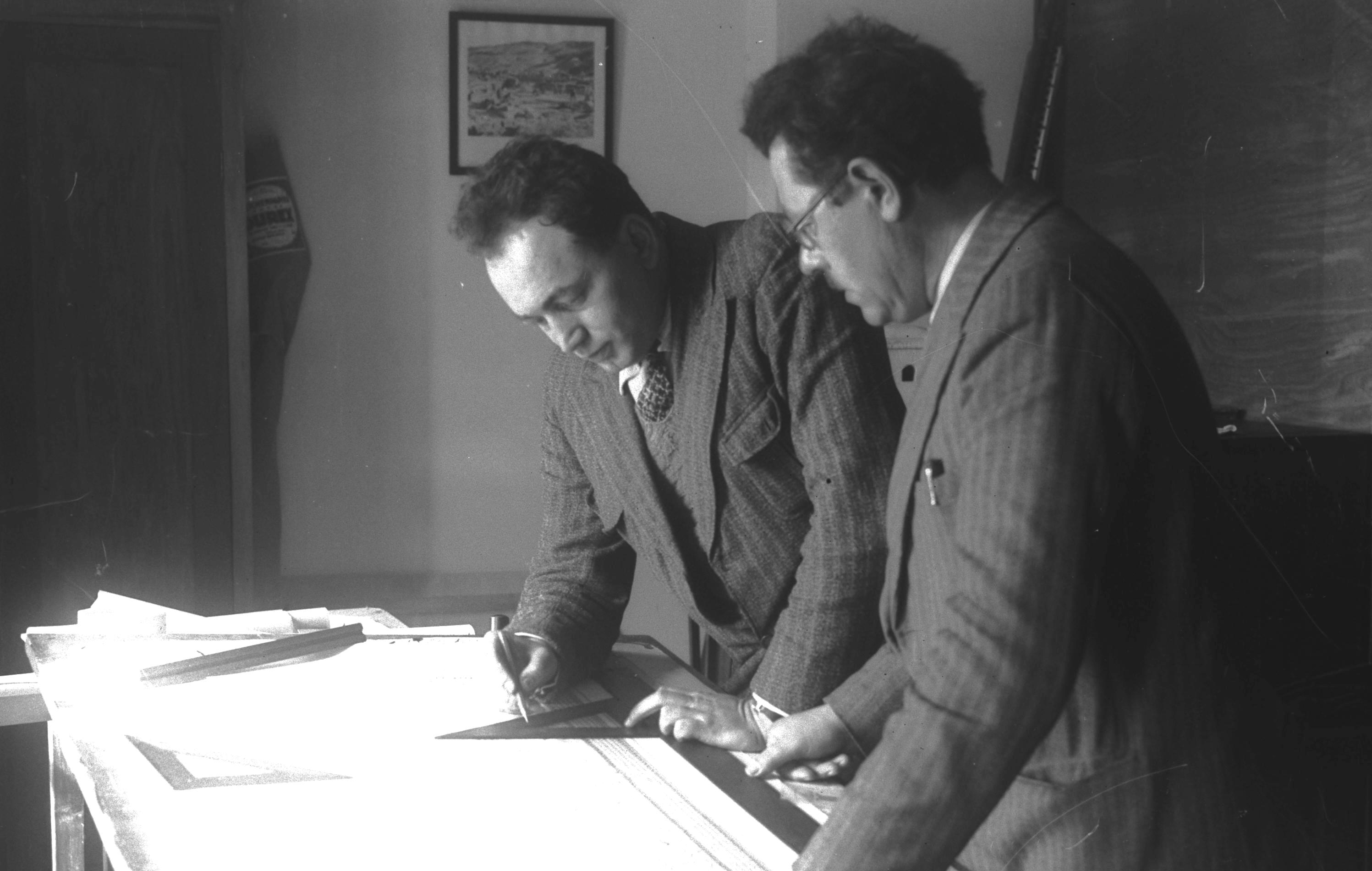 PROF. ELIEZER SUKENIK (R) AND PROF. AVIGAD TAKING MEASUREMENT ON A SKETCH OF A MUSAIC AT THE HEBREW UNIVERSITY IN JERUSALEM.